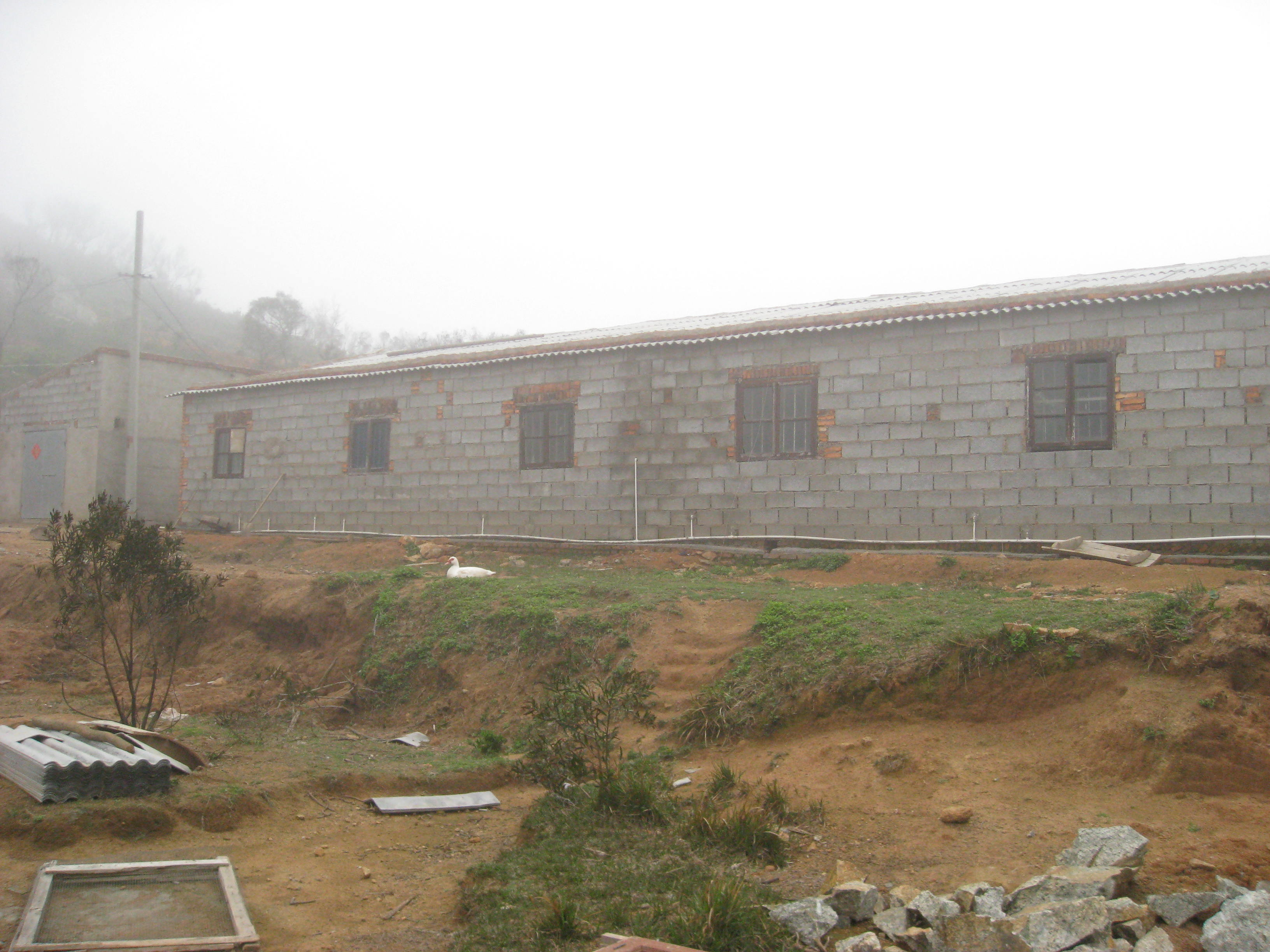 a small pig farm on Fujian, China